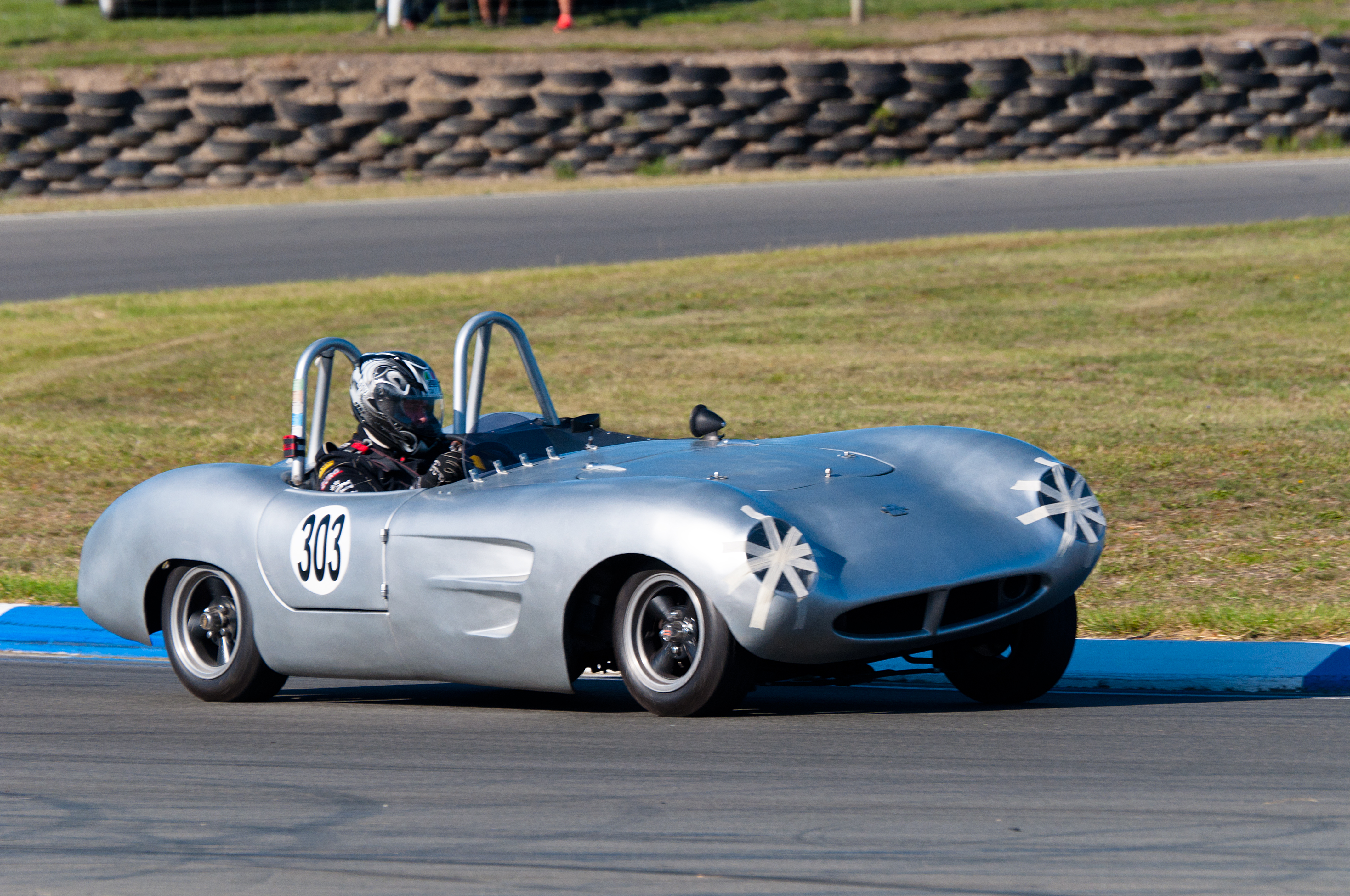 Mistral bodied sports car racing at Ruapuna